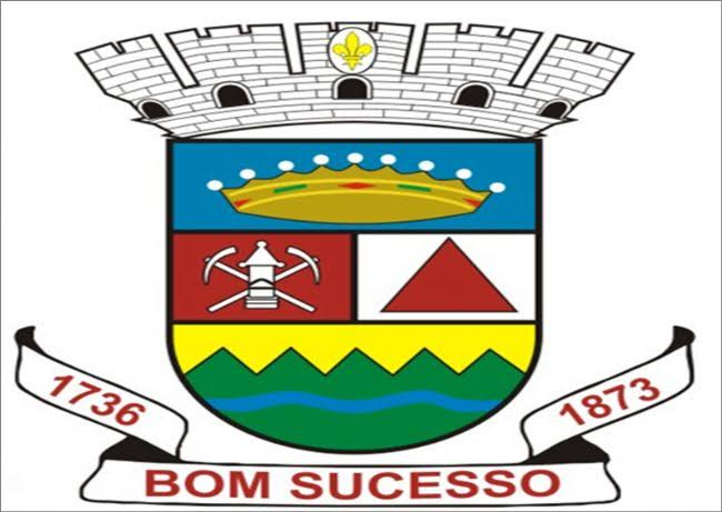 Coat of arms of the city of Bom Sucesso,Minas Gerais, Brazil.